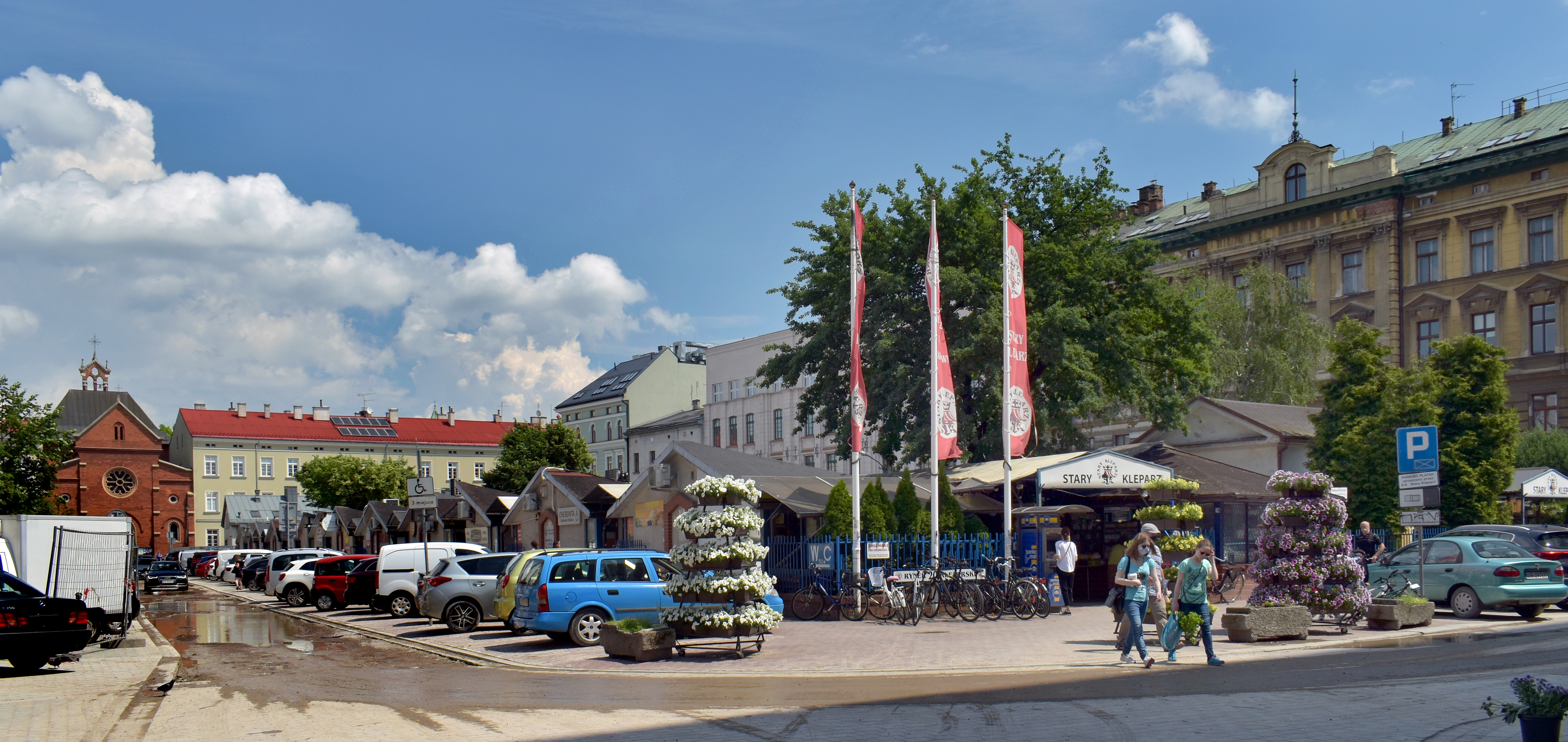 Kleparski Market Square (view from S), Kraków, Poland